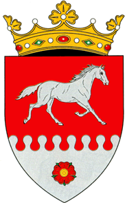 Coat of Arms of Rajon Rîșcani